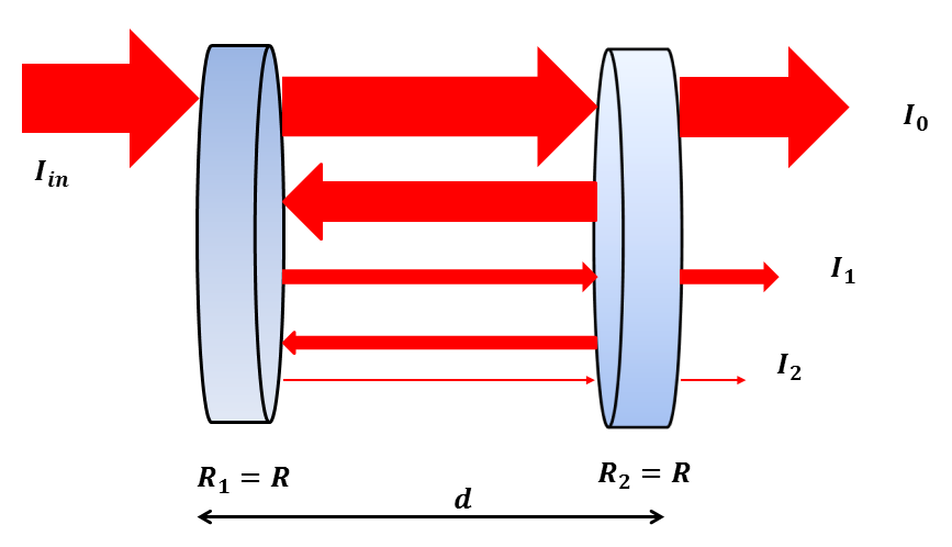 ringing of light inside a cavity